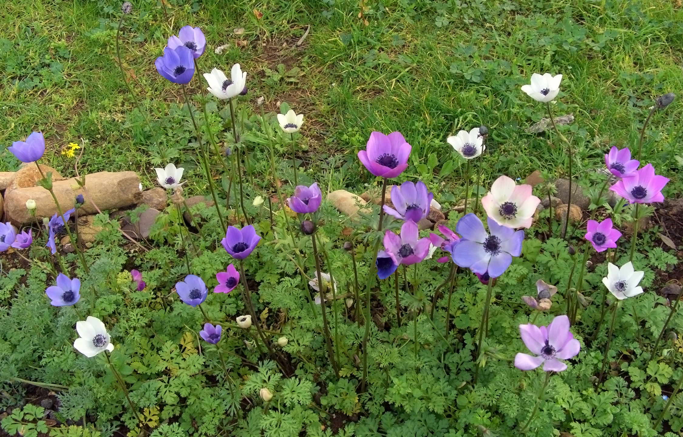 Poppy anemones (Anemone coronaria)